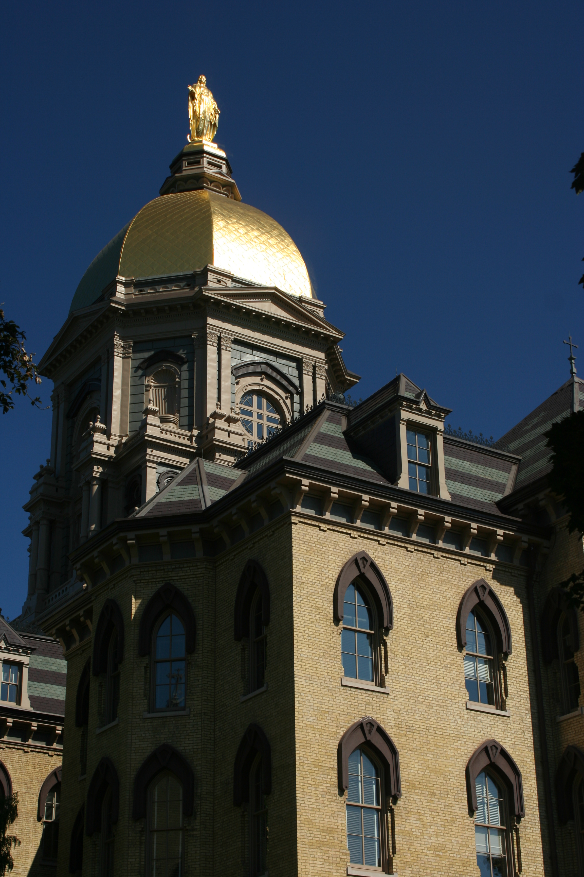 The dome on the main building at the University of Notre Dame in South Bend, IN